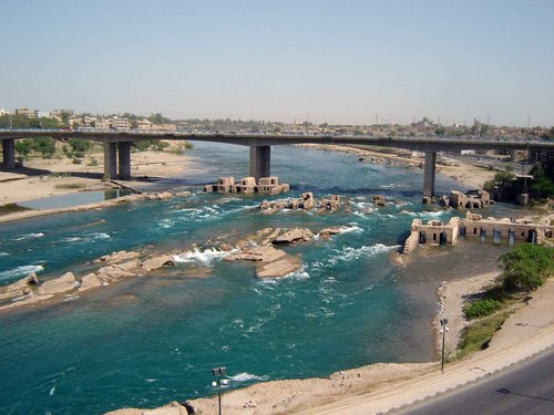 New bridge dezful